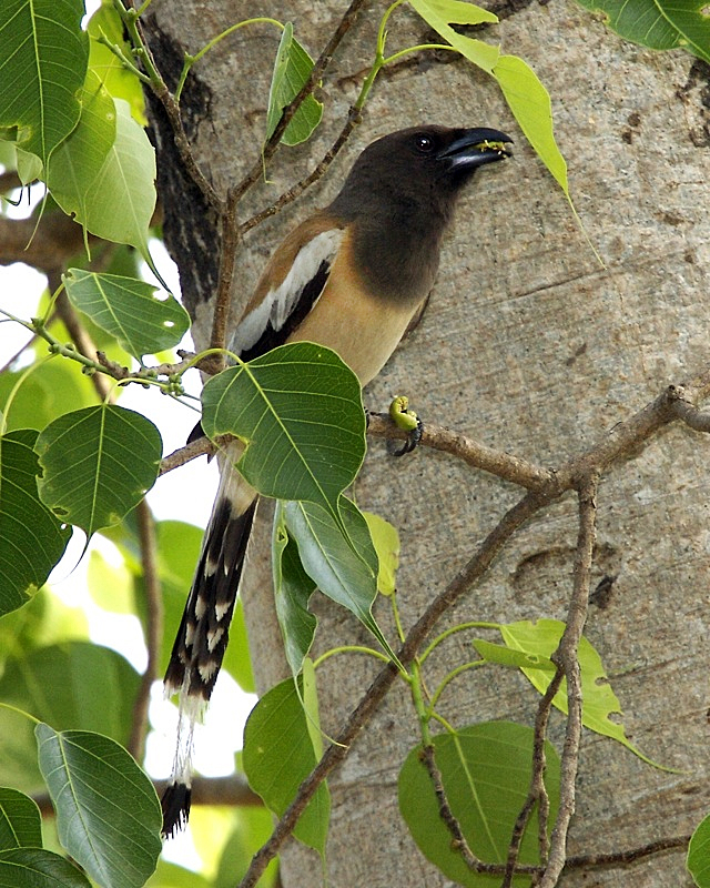 Rufous Treepie (Dendrocitta vagabunda in Vedanthangal Water Birds Sanctuary, Tamil Nadu, India on 11 May 2007. Also known as: Names:Indian Tree Pie, Indian Treepie, Rufous Treepie, Wandering Treepie. Hindi: Vaal kakai Thai: นกกะลิงเขียด